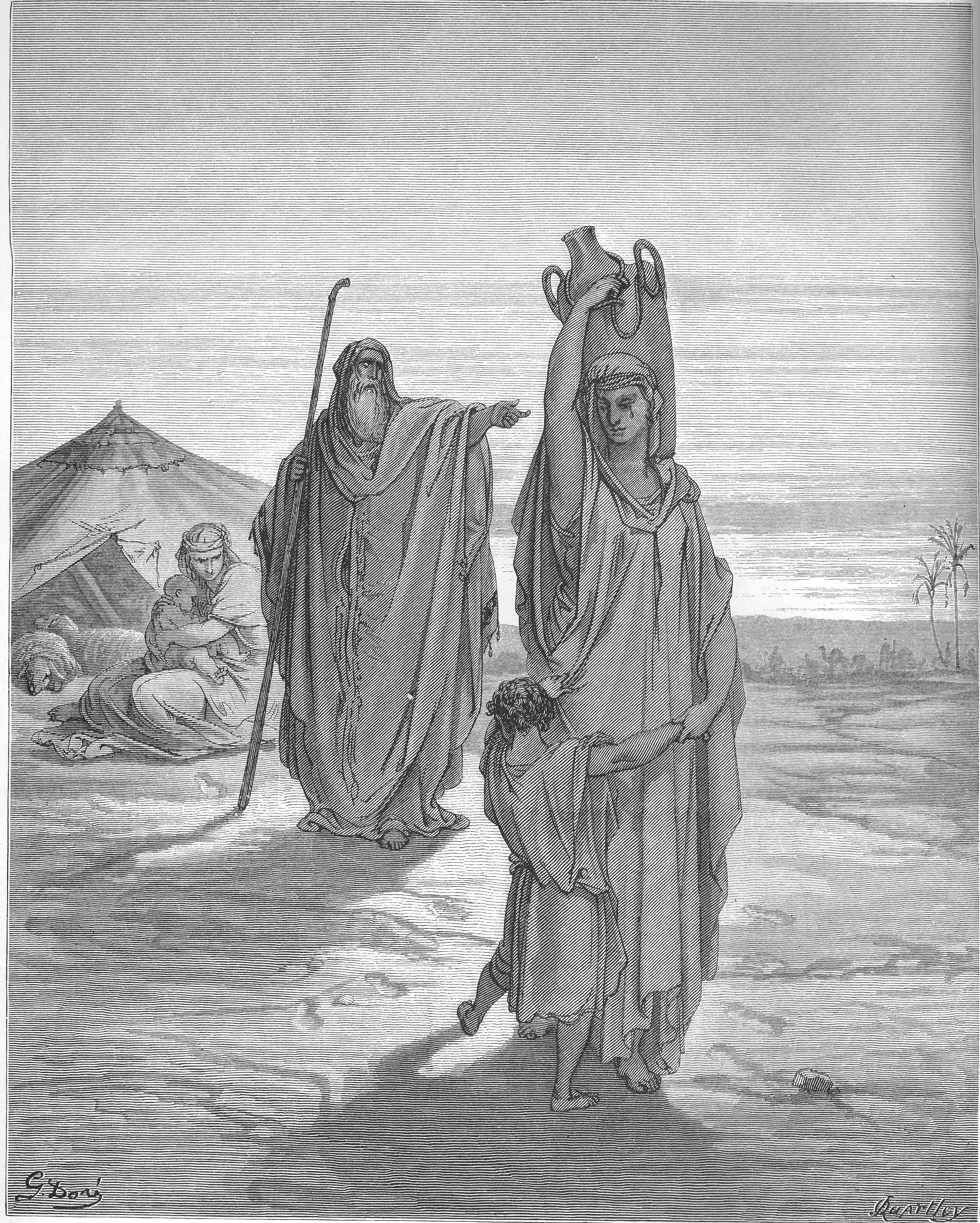 Abraham Sends Hagar and Ishmael Away (Gen. 21:1-14)